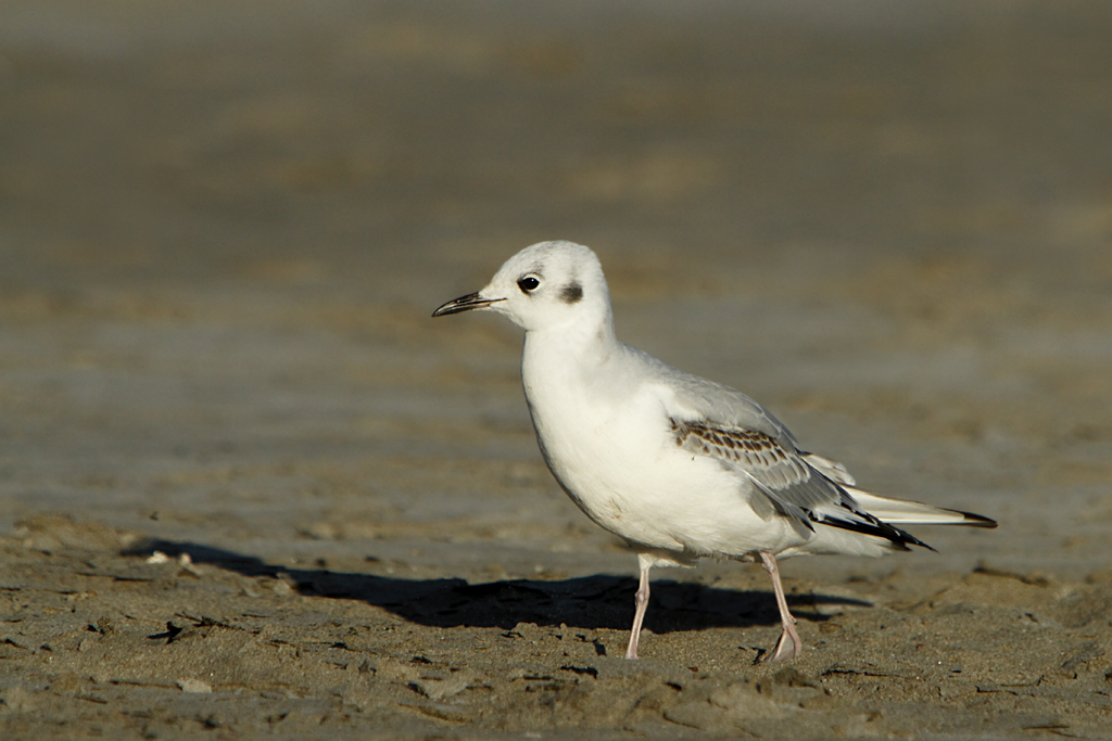 Bonaparte's Gull Chroicocephalus philadelphia, first-winter, Morro Bay, California.